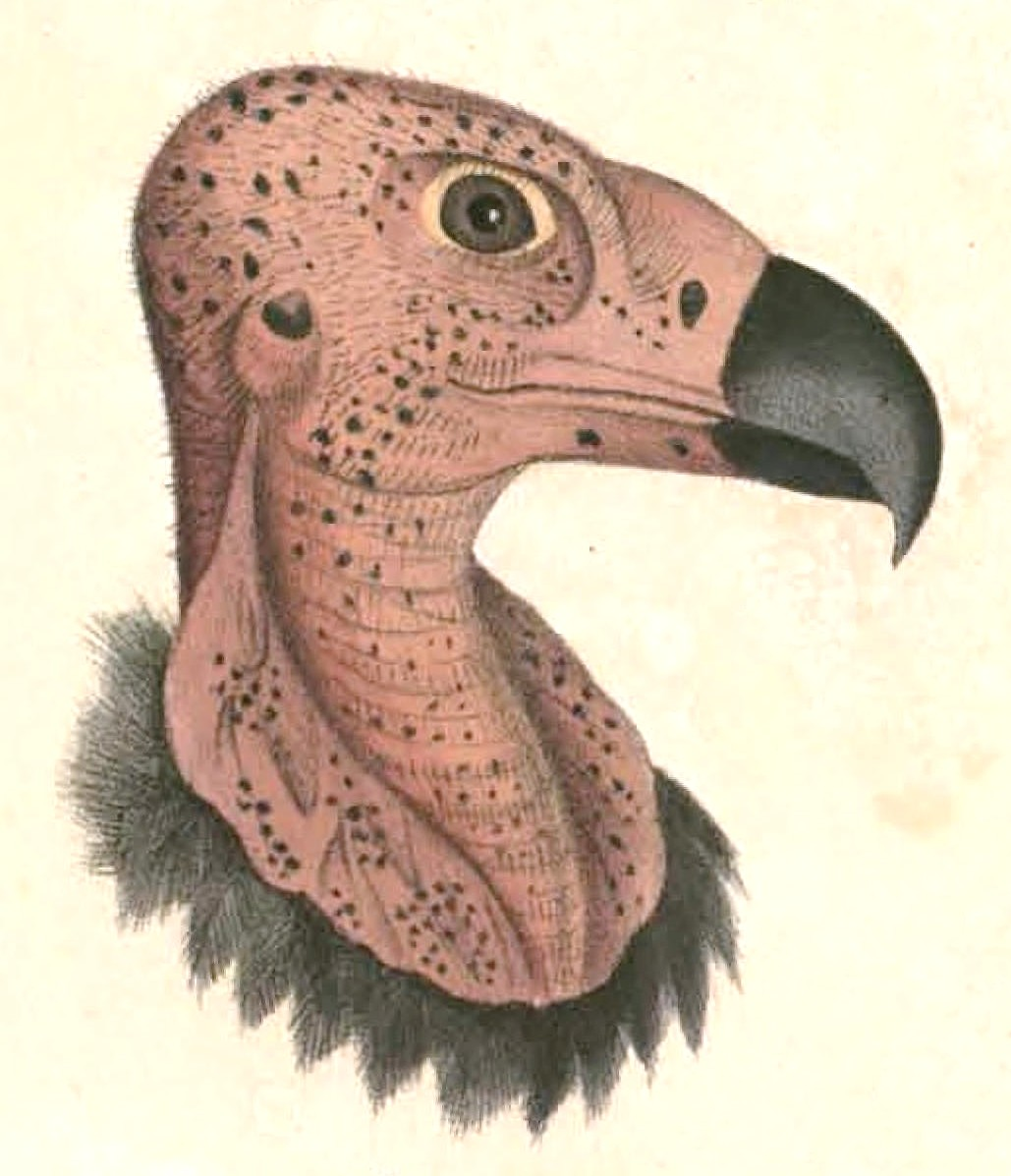 « Vultur pondicerianus » = Sarcogyps calvus (Red-headed Vulture) - head